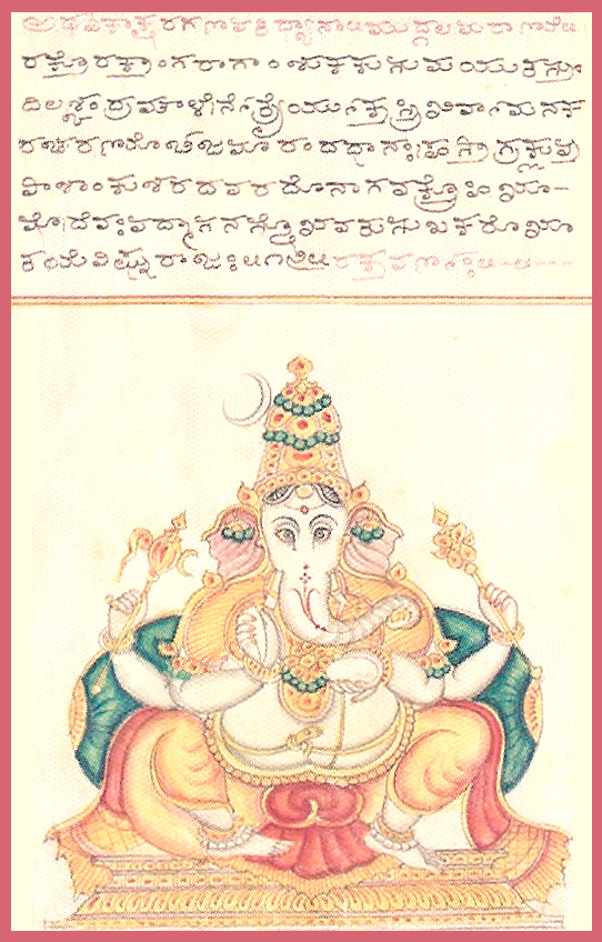 Reproduction from the Śrītattvanidhi ("The Illustrious Treasure of Realities"), an iconographic treatise compiled in the 19th century in Karnataka, India, by order of the then Maharaja of Mysore, Krishnaraja Wodeyar III (b. 1794 - d. 1868).